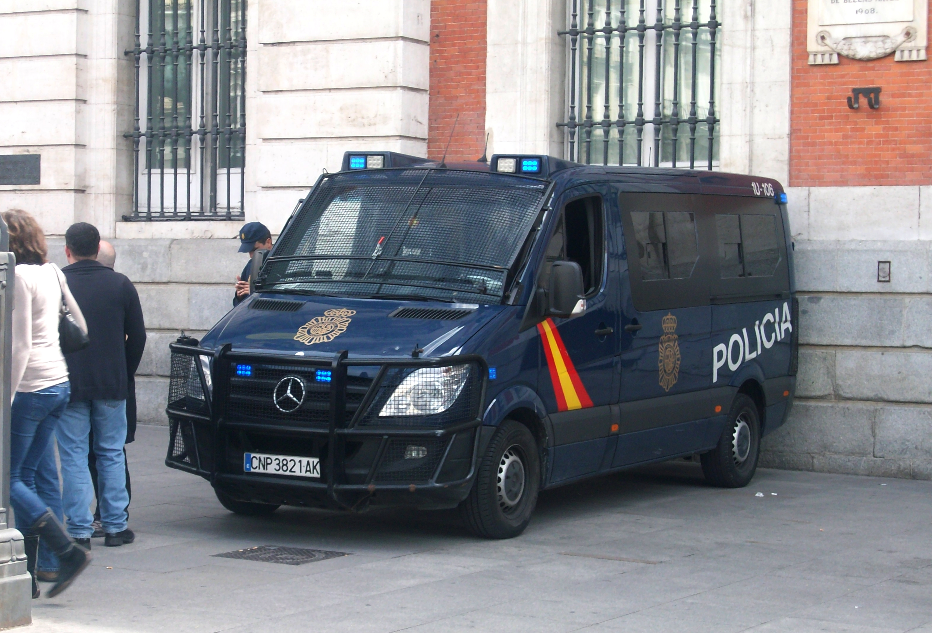 Vehicle of the Policía, in Madrid